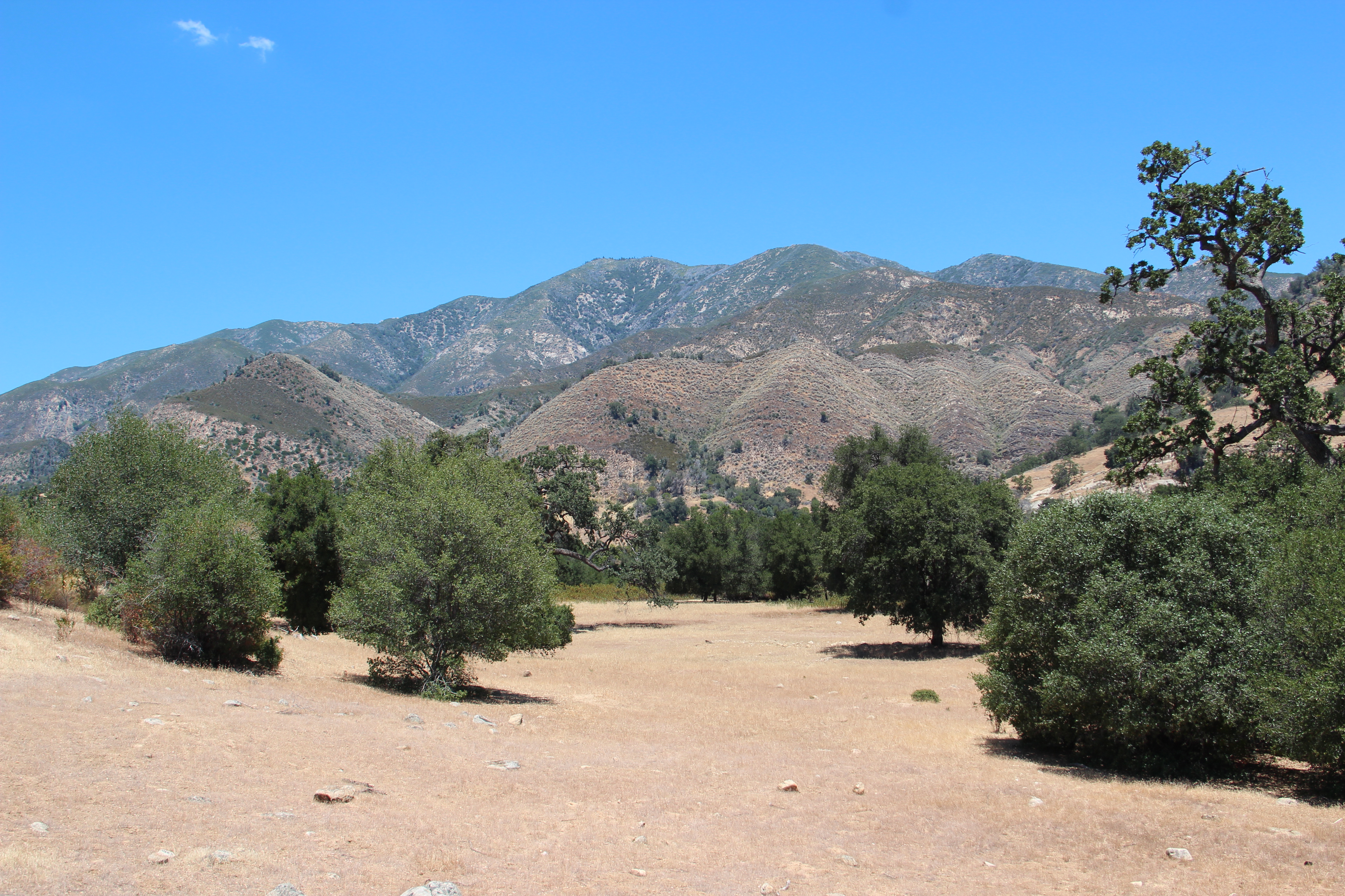 Junipero Serra Peak, viewed from the Santa Lucia Memorial Park Campground